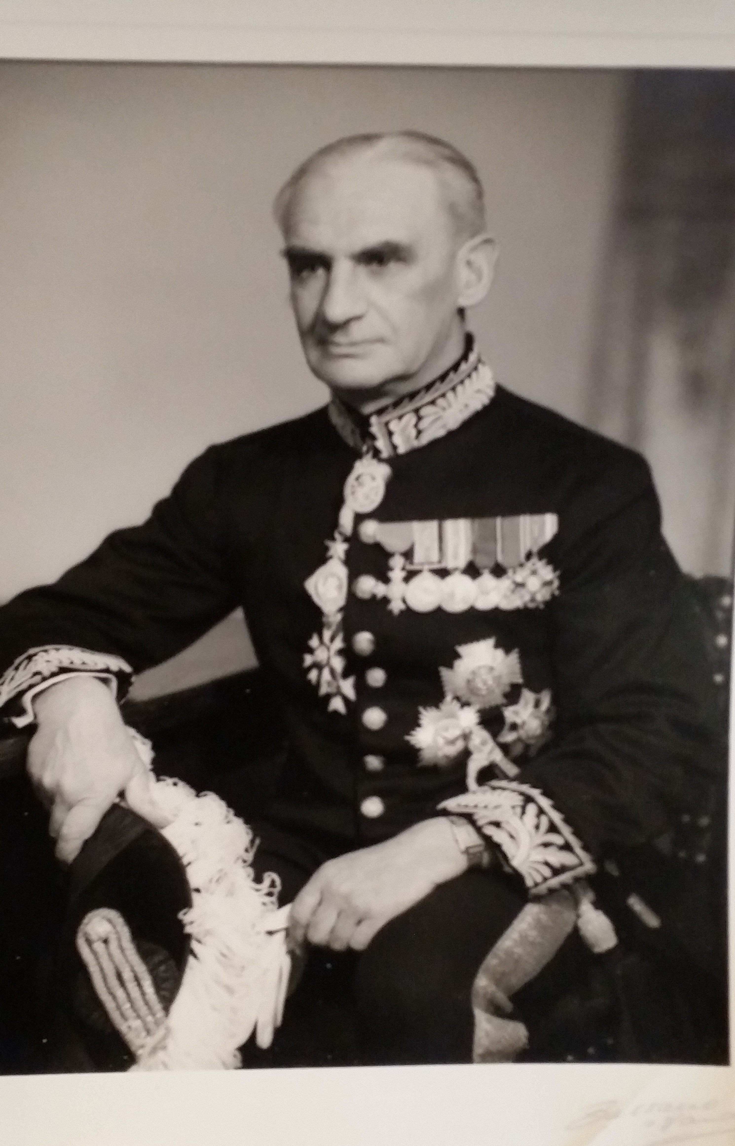 An old family photograph of Sir David Taylor Monteath